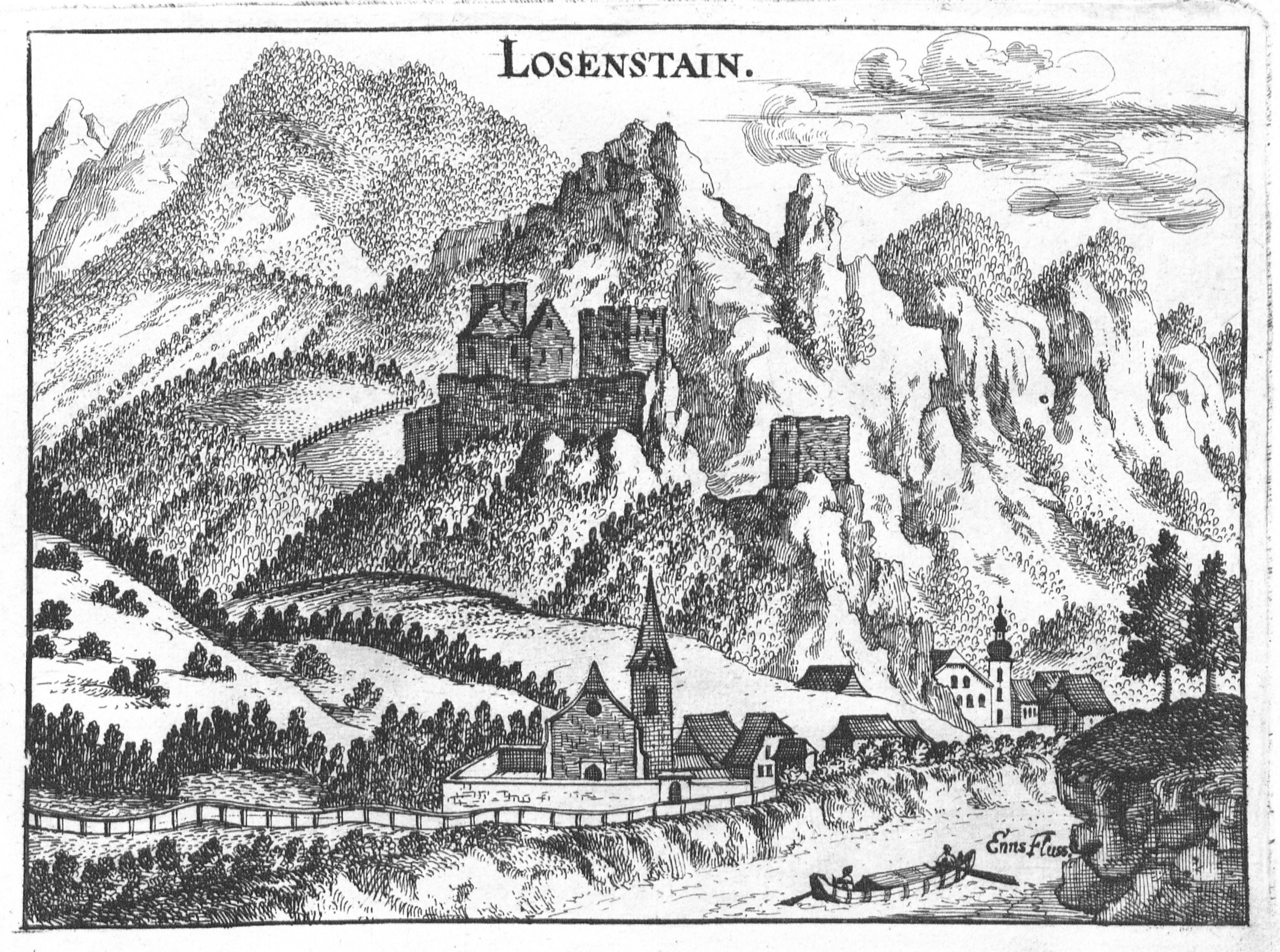 Engraving, view of Losenstein castle, Upper Austria